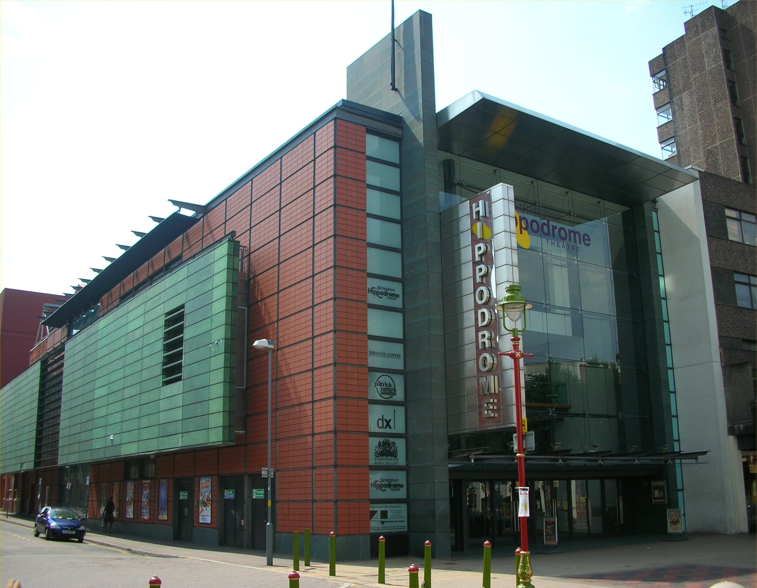 Birmingham Hippodrome on the corner of Hurst Street and Inge Street, Birmingham, England. Photographed 20 July 2006 by me.